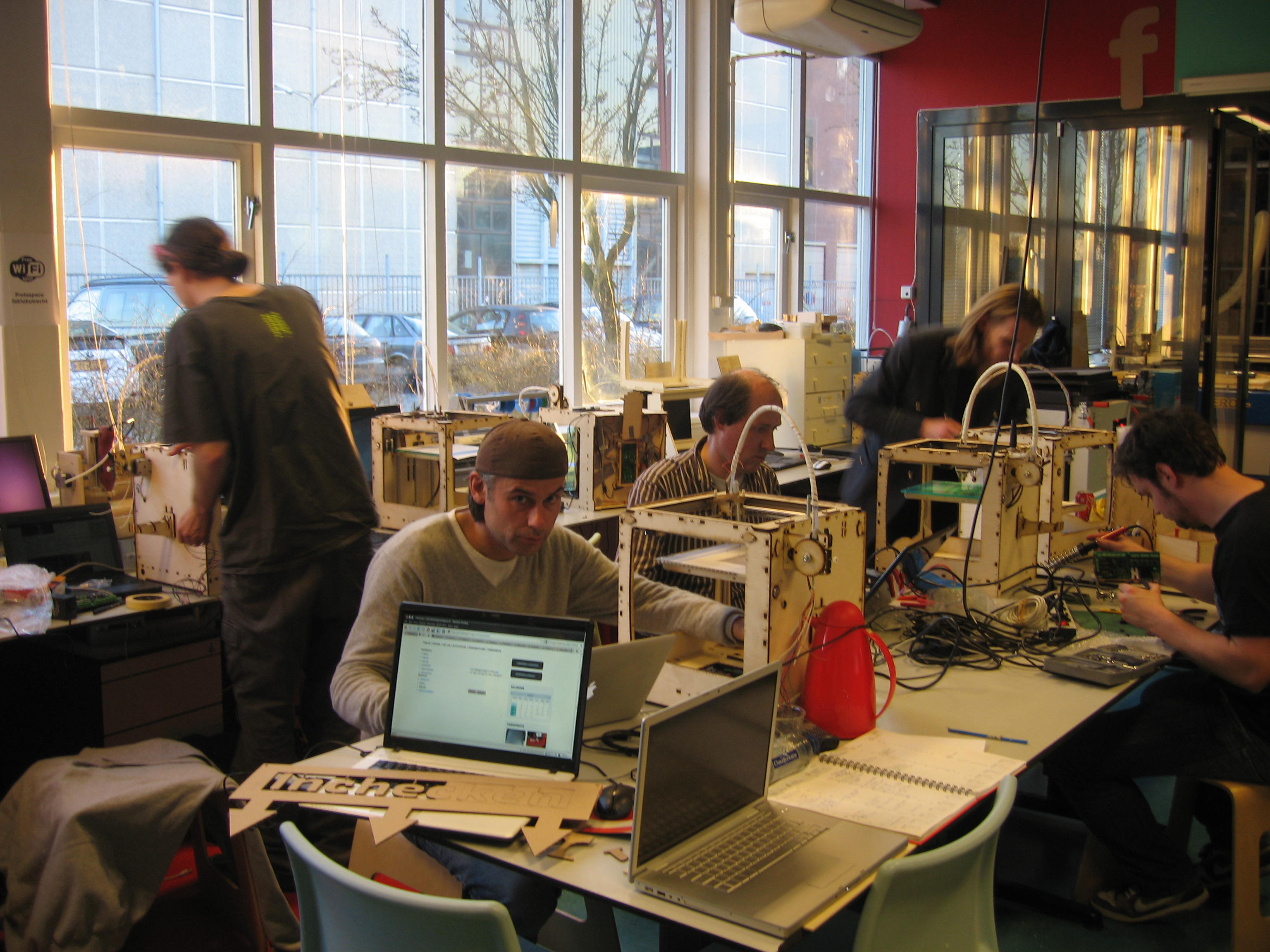 FabFlashes from protospace.nl